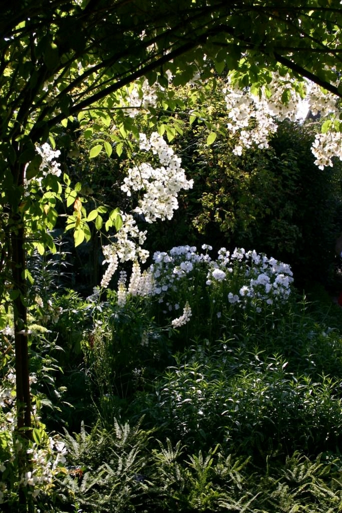 Original description:View of rose arbor in Sissinghurst's White Garden. Taken on a trip to England.